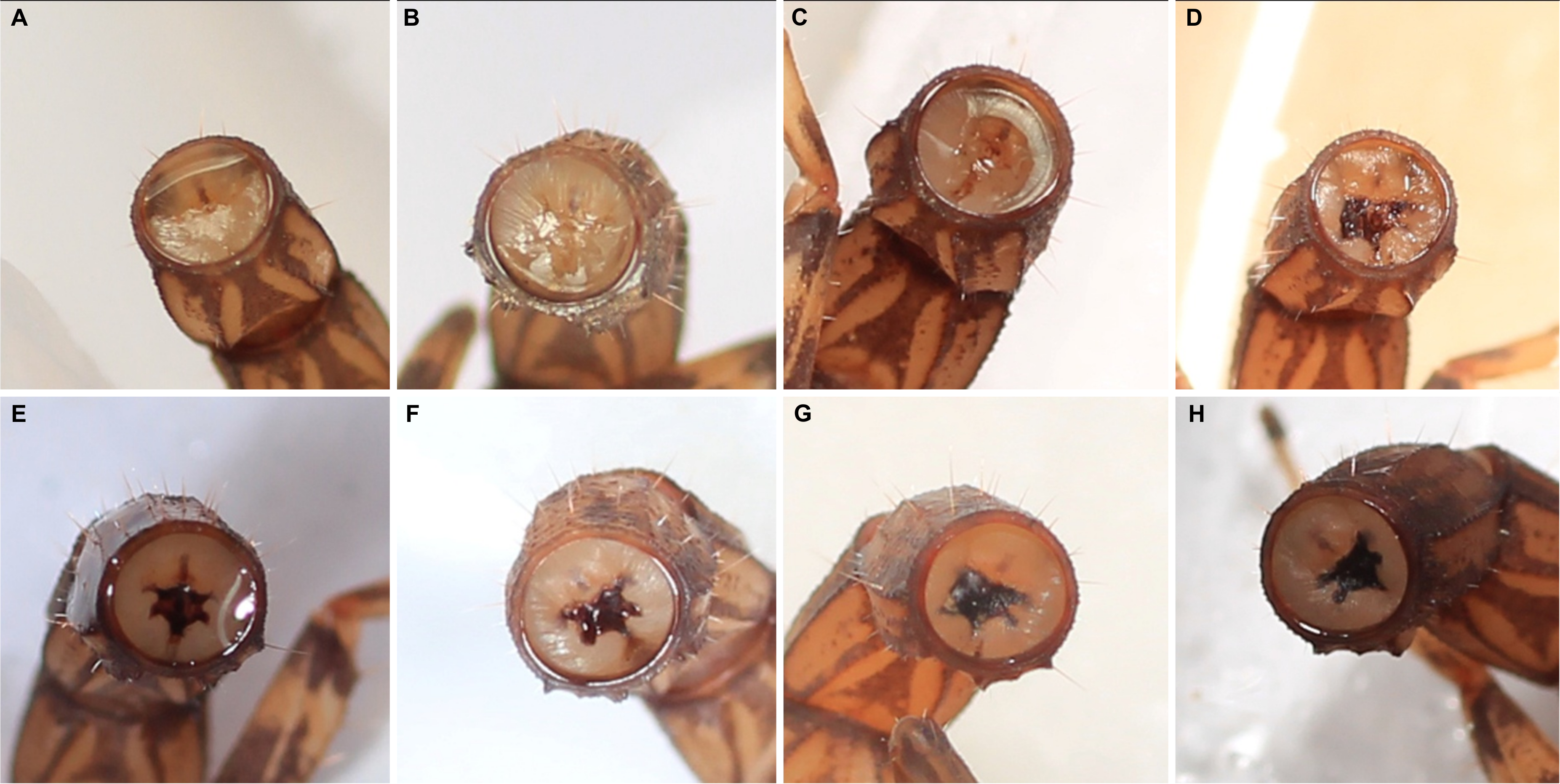 Post-autotomy healing of severed stump of metasomal segment of adult male Ananteris solimariae. A. One hour after autotomy, with drop of hemolymph. B. One day after, hemolymph loss continues. C. Two days after, hemolymph loss reduced, brown scar beginning to develop. D. Three days after, hemolymph loss reduced, scar developing. E. Four days after, scar almost completely developed. F. Five days after, no hemolymph loss, scar fully formed. G. Ten days after, scar darkened. H. Twenty-five days after, scar fully defined.